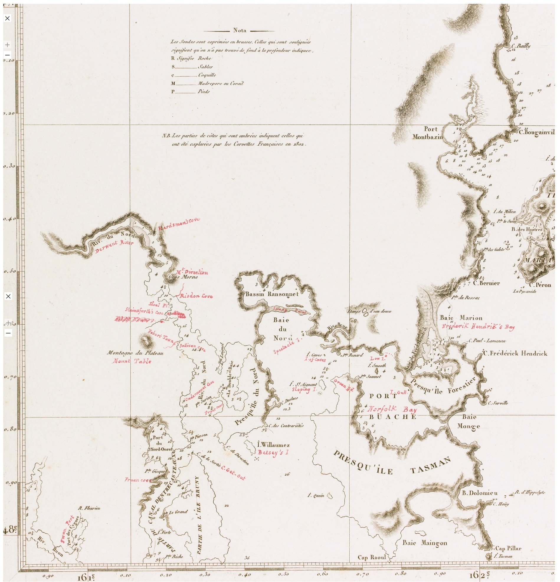 Freycinet, Louis-Claude de Saulces de: VOYAGE DE DÉCOUVERTES AUX TERRES AUSTRALES... PARTIE NAVIGATION ET GÉOGRAPHIE... ATLAS. PARIS: DÉPÔT GÉNÉRAL DES CARTES ET PLANS DE LA MARINE, 1812